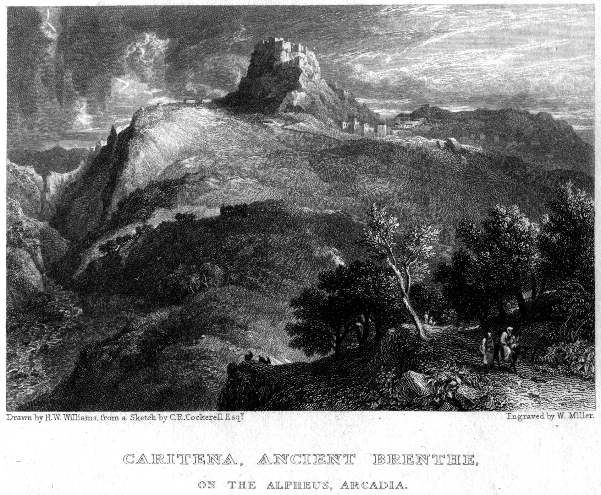 Caritena, Ancient Brenthe engraving by William Miller after H W Williams (Miller paid £12-12-0 in iii 1824 for engraving), published in Select Views In Greece With Classical Illustrations. Williams, Hugh William. London: Longman Rees Orme Brown and Green; and Adam Black. 1829